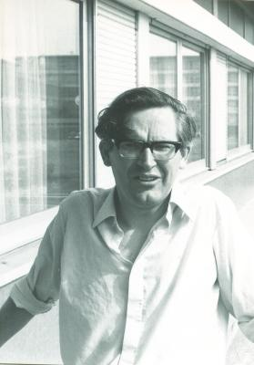 David Williams, Welsh mathematician, at Strassburg.